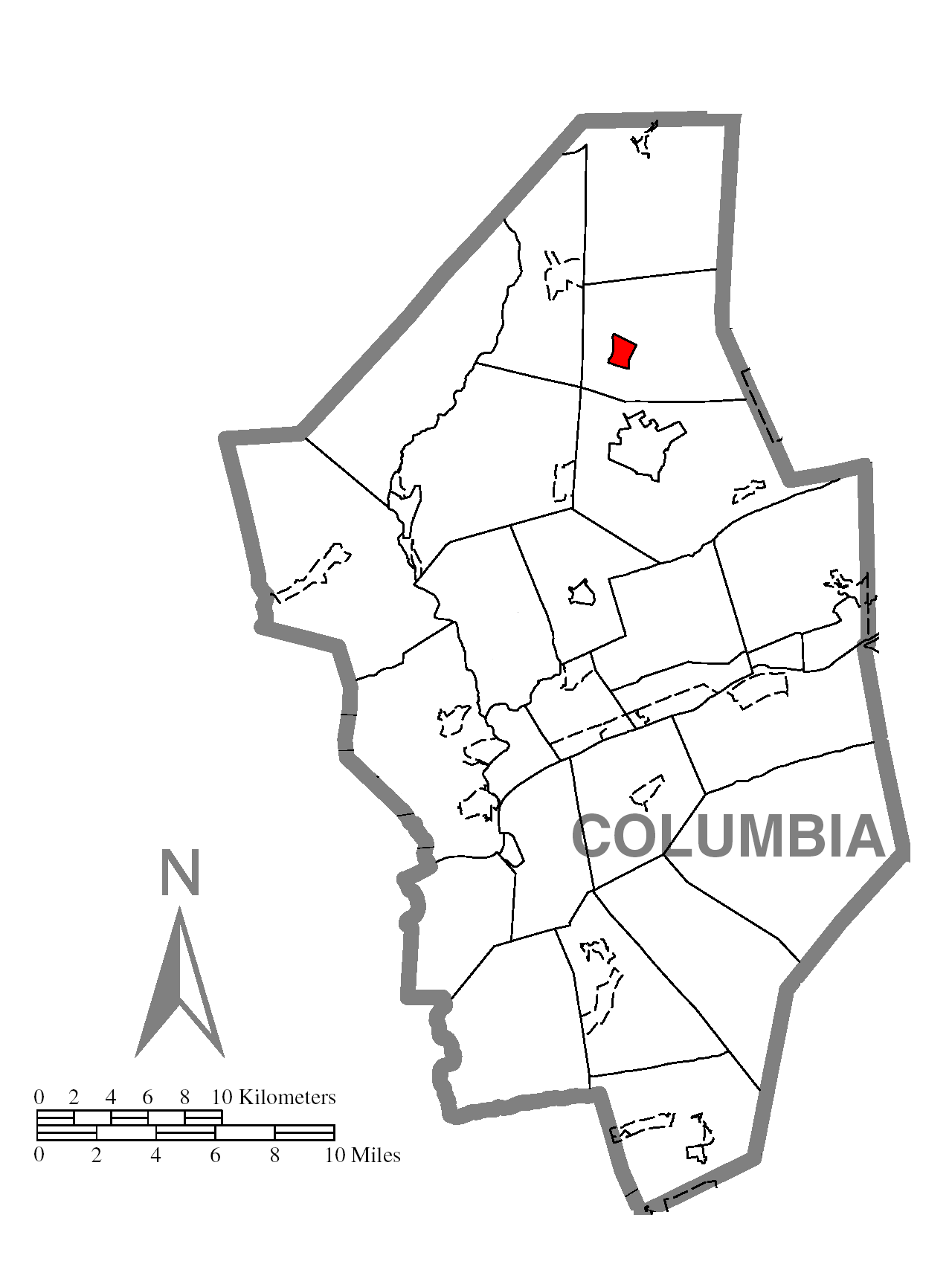 A map of Columbia County showing Benton, Pennsylvania (alternate) highlighted on the map.